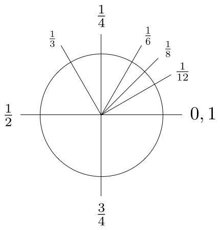 Turns